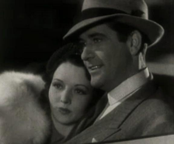 Dorothy Appleby and Grant Withers in Paradise Express (1937) - cropped screenshot.